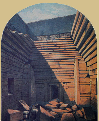 Maes Howe after opening